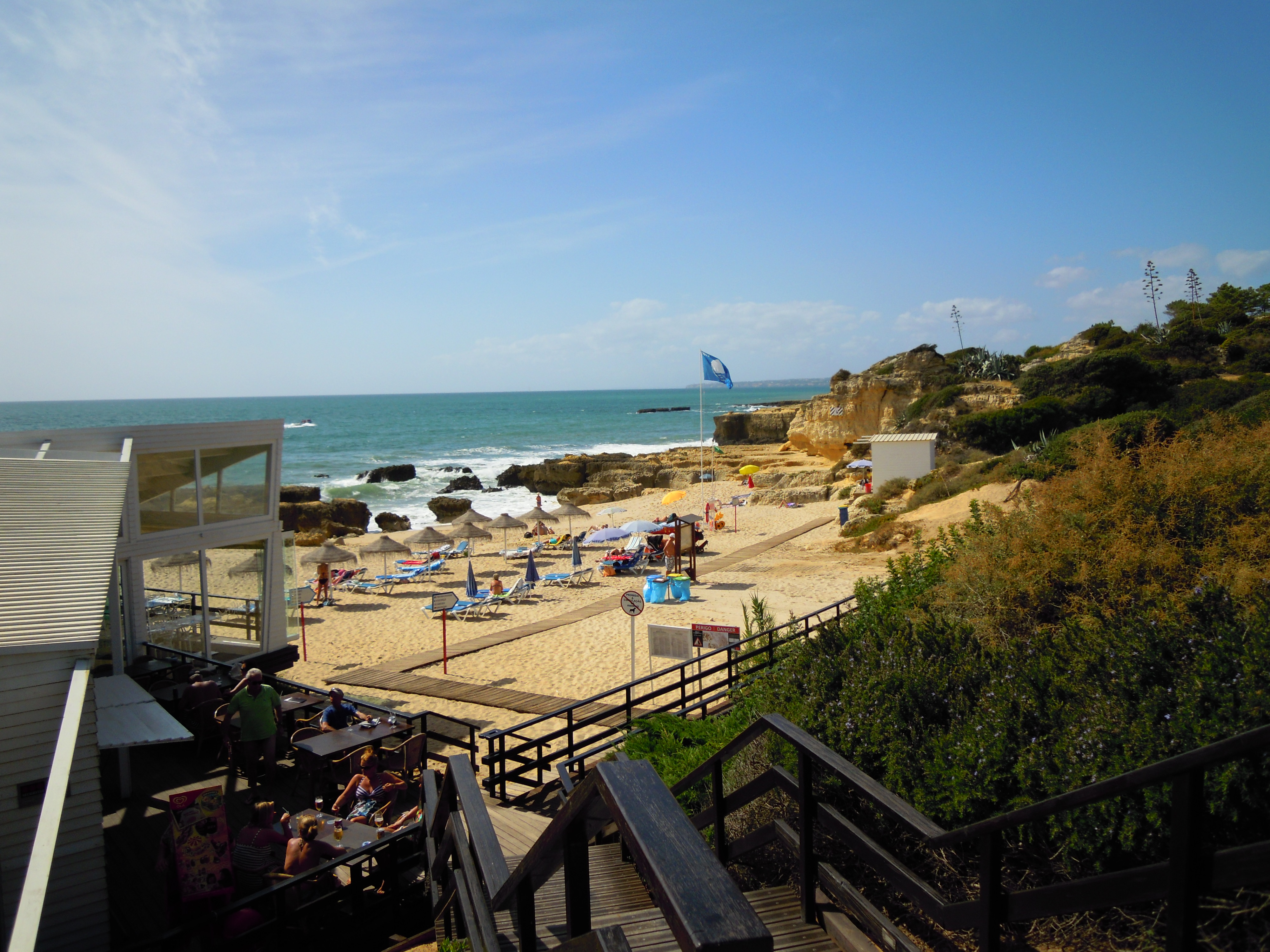 a Photograph of Praia_do_Evaristo looking west across the beach, Albufeira, Algarve, Portugal